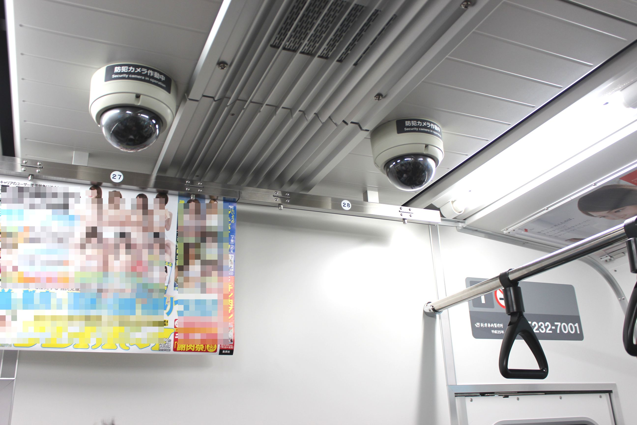 A ceiling-mounted security camera inside a JR East E233-7000 series Saikyo Line EMU (car number E232-7001)